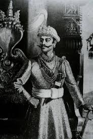 Rana Bahadur Shah, King of Nepal; also known as Swami Nirgunananda